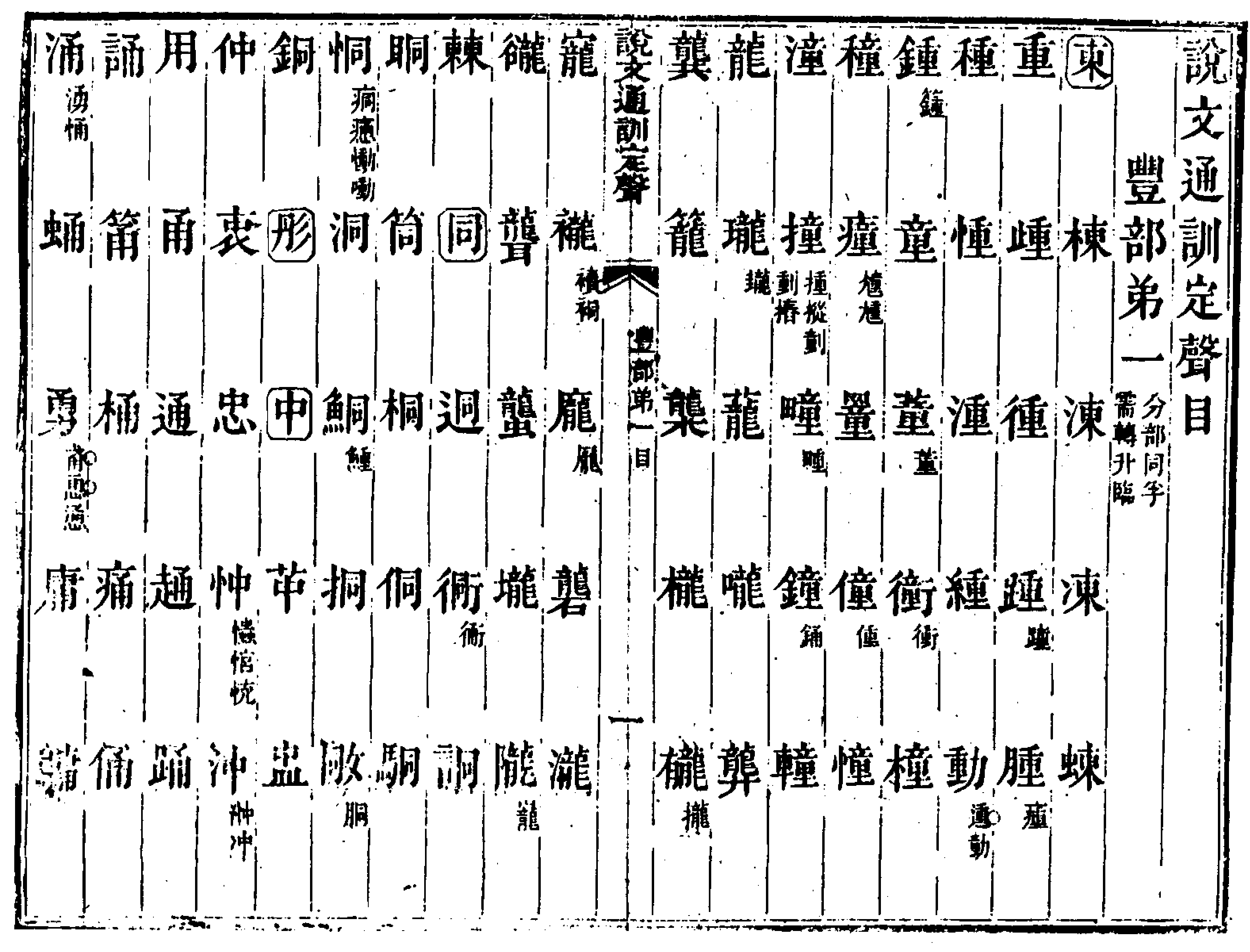 First page of the first section of the Shuōwén tōngxùn dìngshēng (說文通訓定聲), covering the 豐 fēng rhyme group, beginning with phonetic components 東 dōng, 同 tōng, 彤 tōng and 中 zhōng.